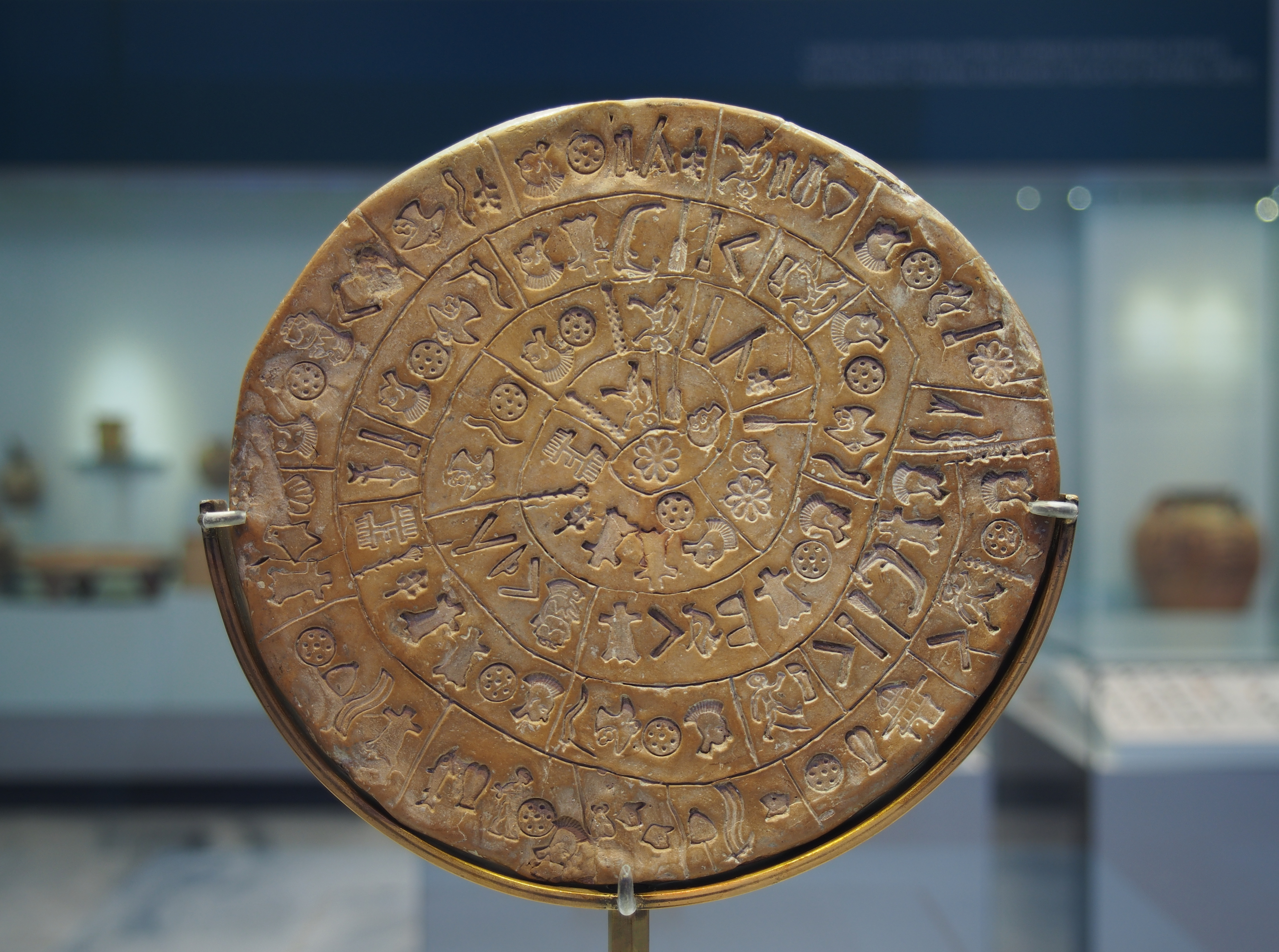 The side A of the disc of Phaistos, as displayed in the Archaeological Museum of Heraklion after the 2014 renovation.